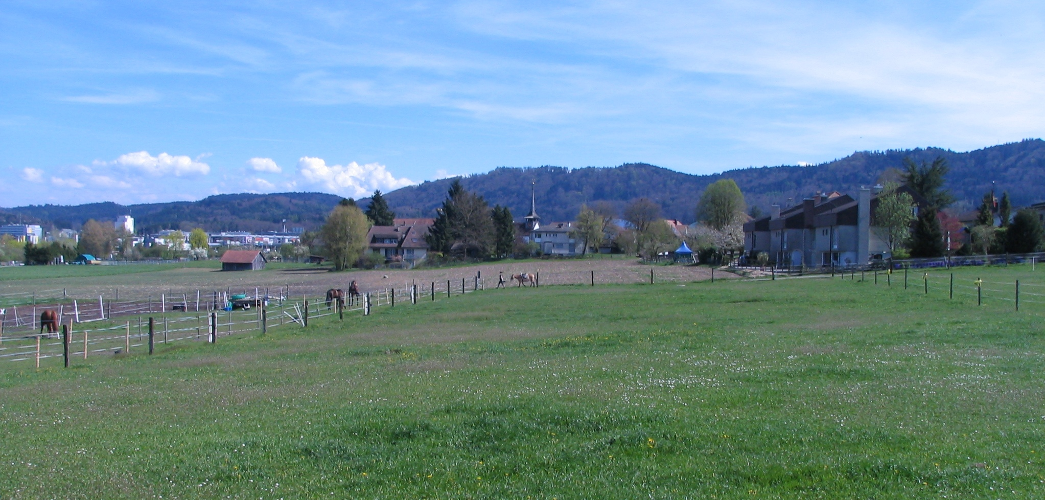 Moosseedorf seen from northwest